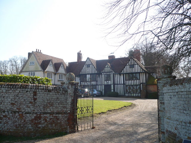 Provender, a medieval house on Provender Road This house, which looks Elizabethan, is medieval and was reputedly a hunting lodge of the Black Prince. It is now owned by a descendant of the Russian Romanoff family, Princess Olga Romanoff and, with the help of English Heritage and architect Ptolemy Dean, it is being restored to its former glory.